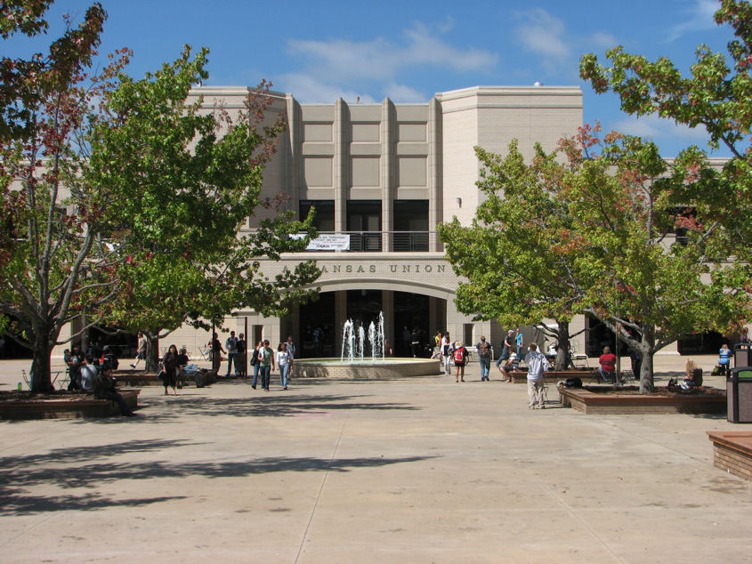 Photograph of the Student Union at the University of Arkansas, taken by Rebel At, on September 11th, 2007.